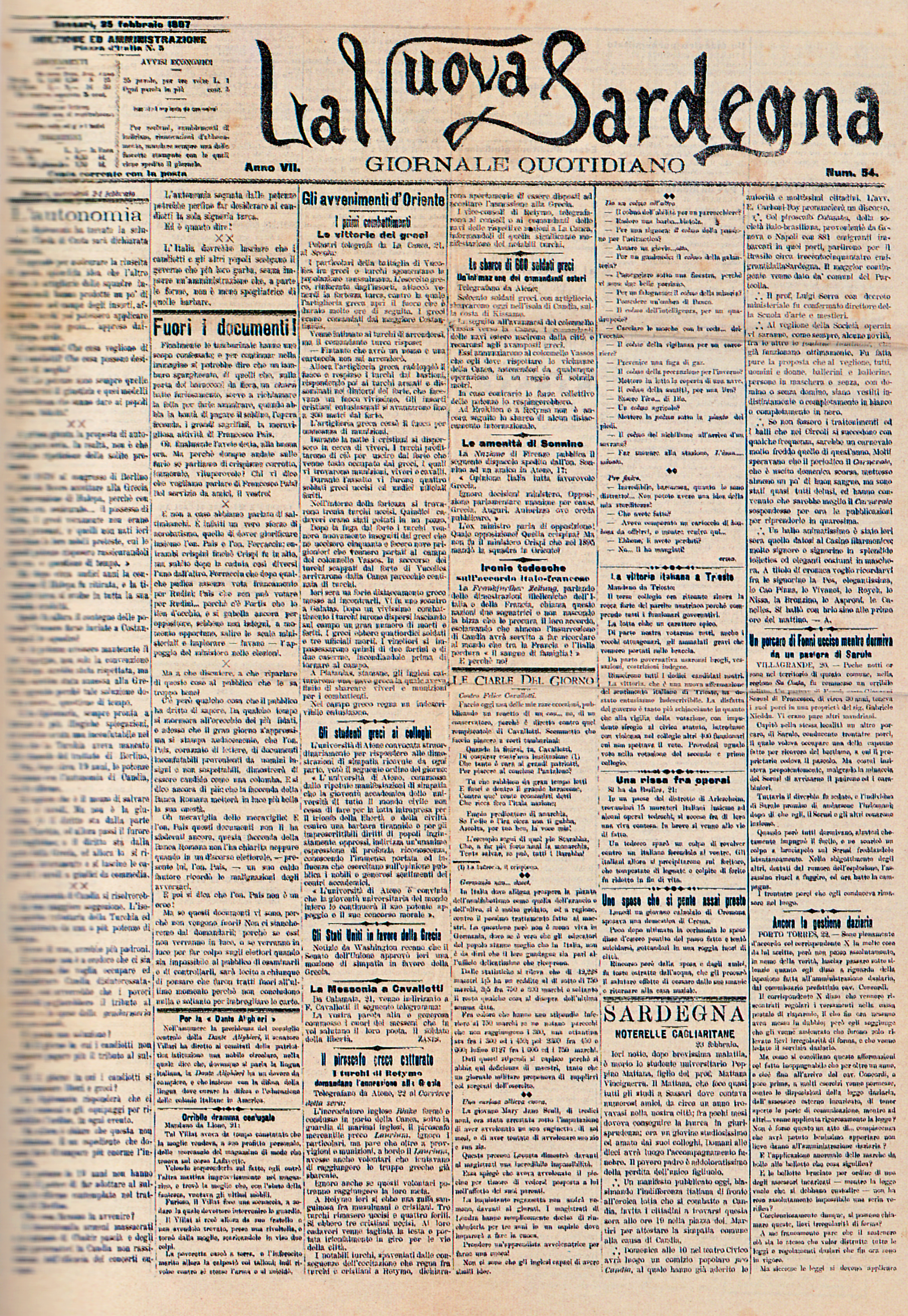 one of the first editions of La Nuova Sardegna's newspaper end of XIX century